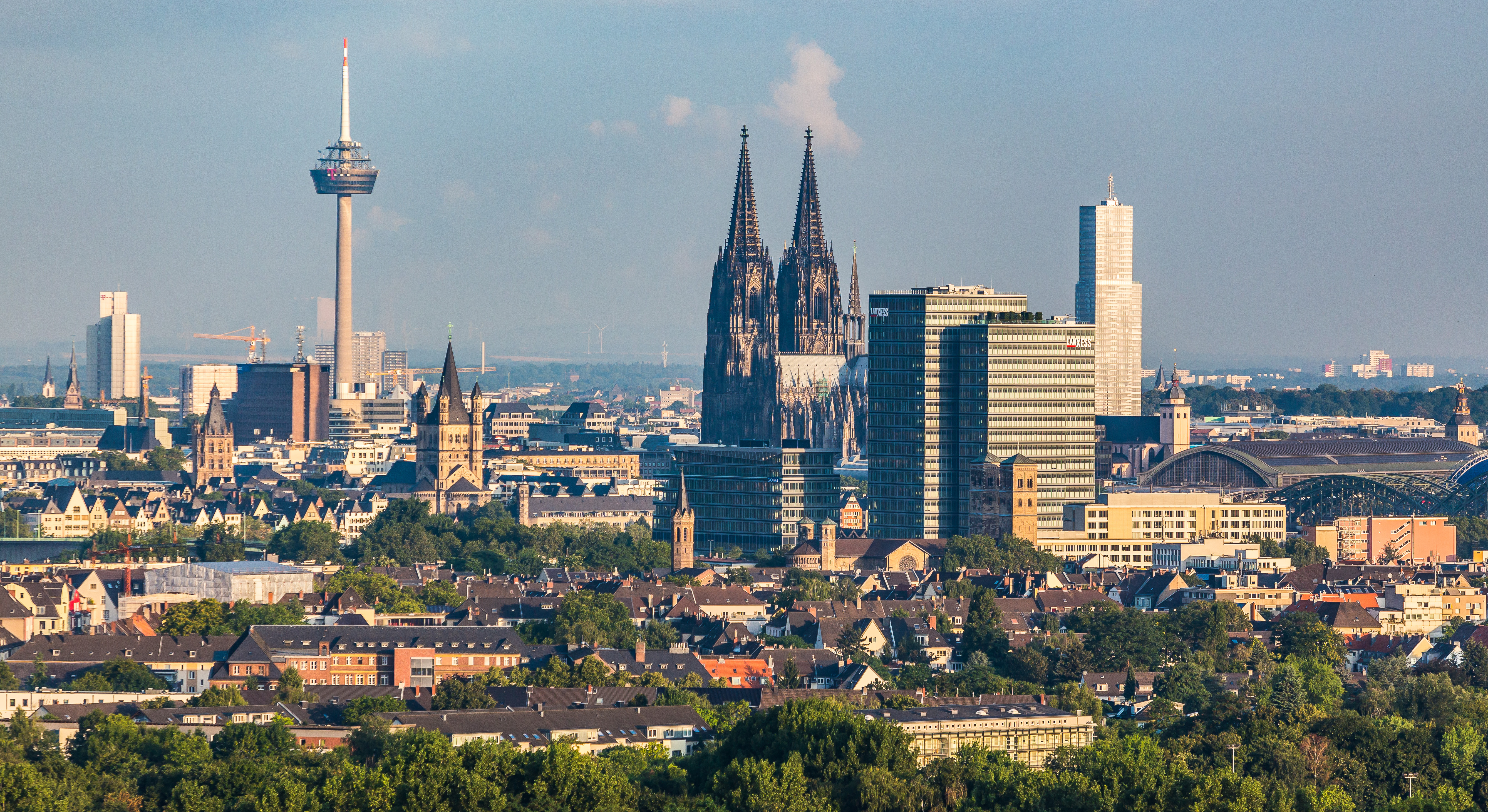 Hot air balloon trip across Cologne, view from the right of the Rhine to the center of Cologne